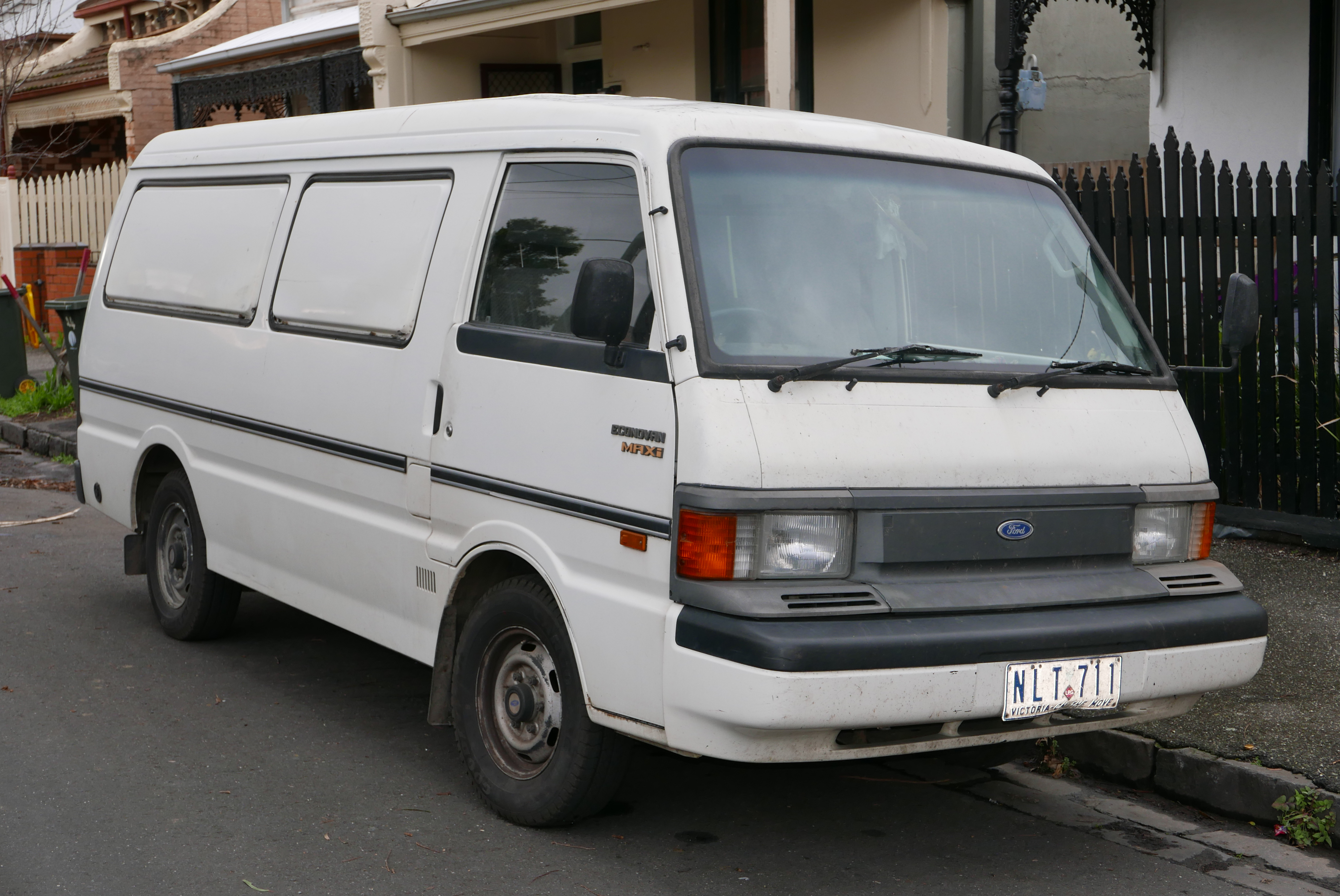 1995 Ford Econovan Maxi MWB van. Photographed in Brunswick, Victoria, Australia. Vehicle registration enquiry results Jurisdiction Victoria Registration NLT711 Chassis code JC0AAASGMESD12189 Engine code FE292280 Compliance date 1995-04 Year of manufacture 1995